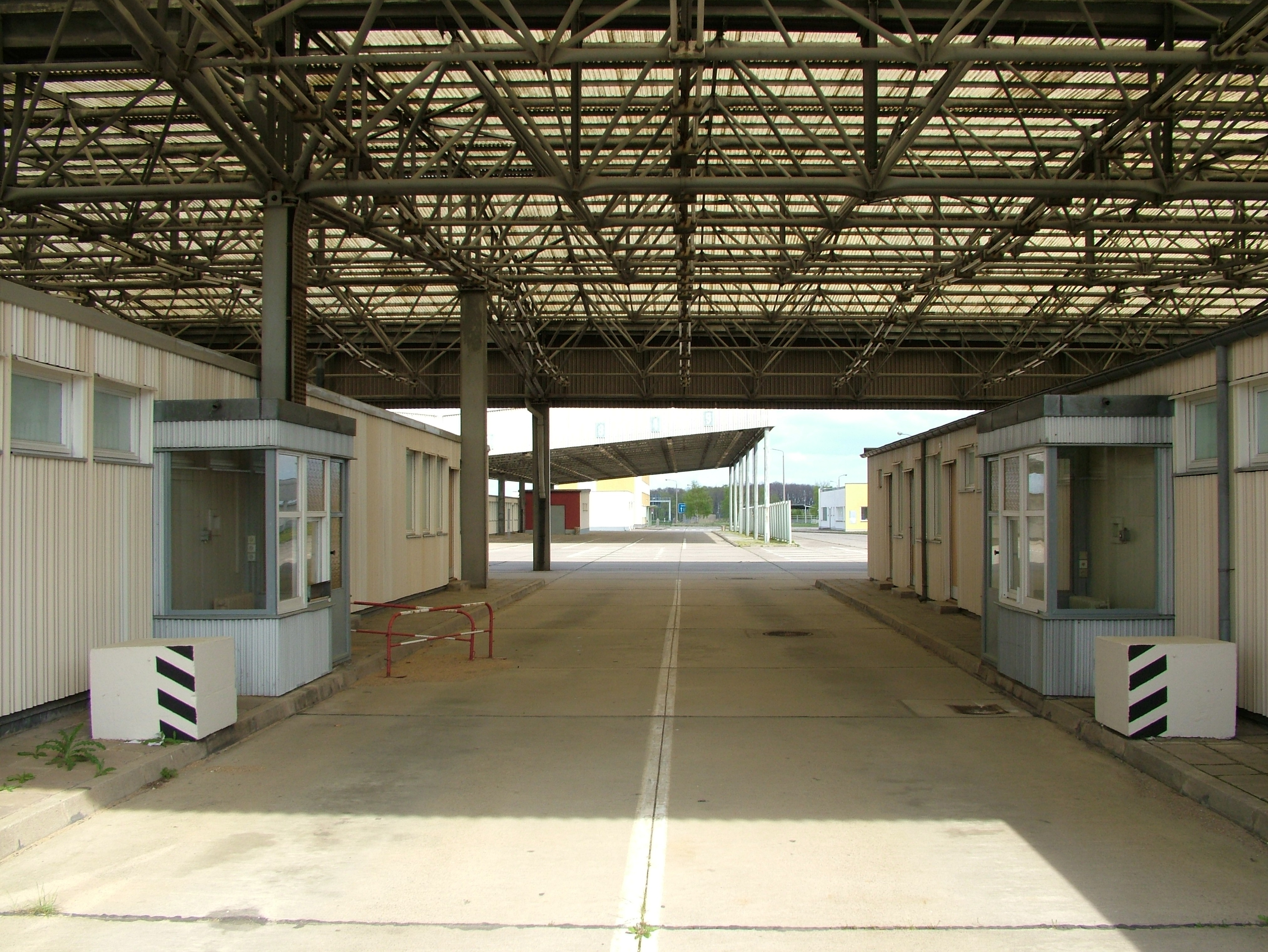 This picture displays the old bordercrossing btw East and West Germany (DDR and BRD) at Marienborn. It is currently a museum. Picture taken by myself in April 2004.